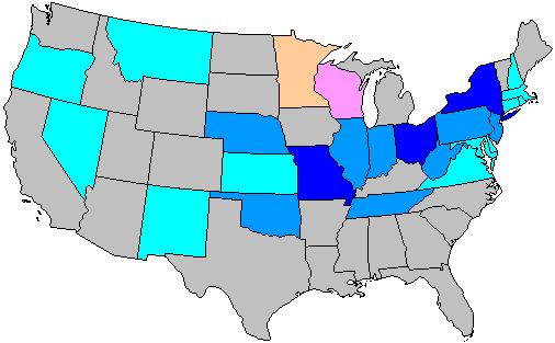 Summary of party change of U.S. house seats in the 1922 House election. Stripes indicate a tie between the gains of two or more parties. Legend: 6+ Democratic seat pickup 3-5 Democratic seat pickup 1-2 Democratic seat pickup 1-2 Republican seat pickup 3-5 Republican seat pickup 6+ Republican seat pickup 1-2 Progressive seat pickup 1-2 Farmer-Labor seat pickup 1-2 Socialist seat pickup Note: years ending in 2 may have inconsistent results due to redistricting.